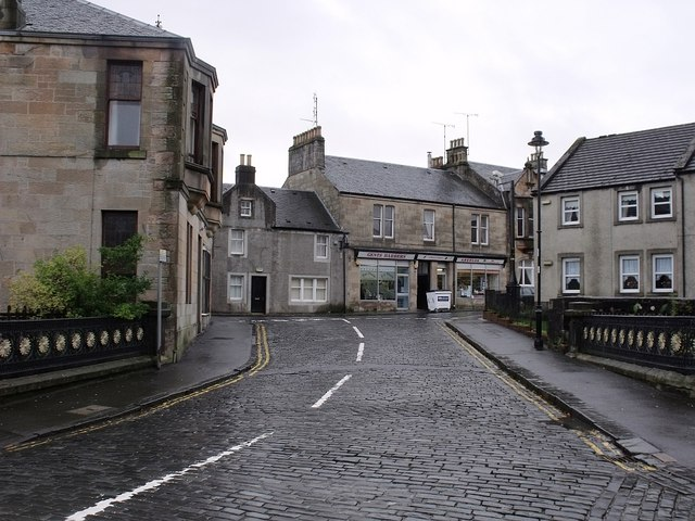 Burngreen to Market Street, Kilsyth Looking across the bridge over the Ebroch Burn towards Market Street from Burngreen.